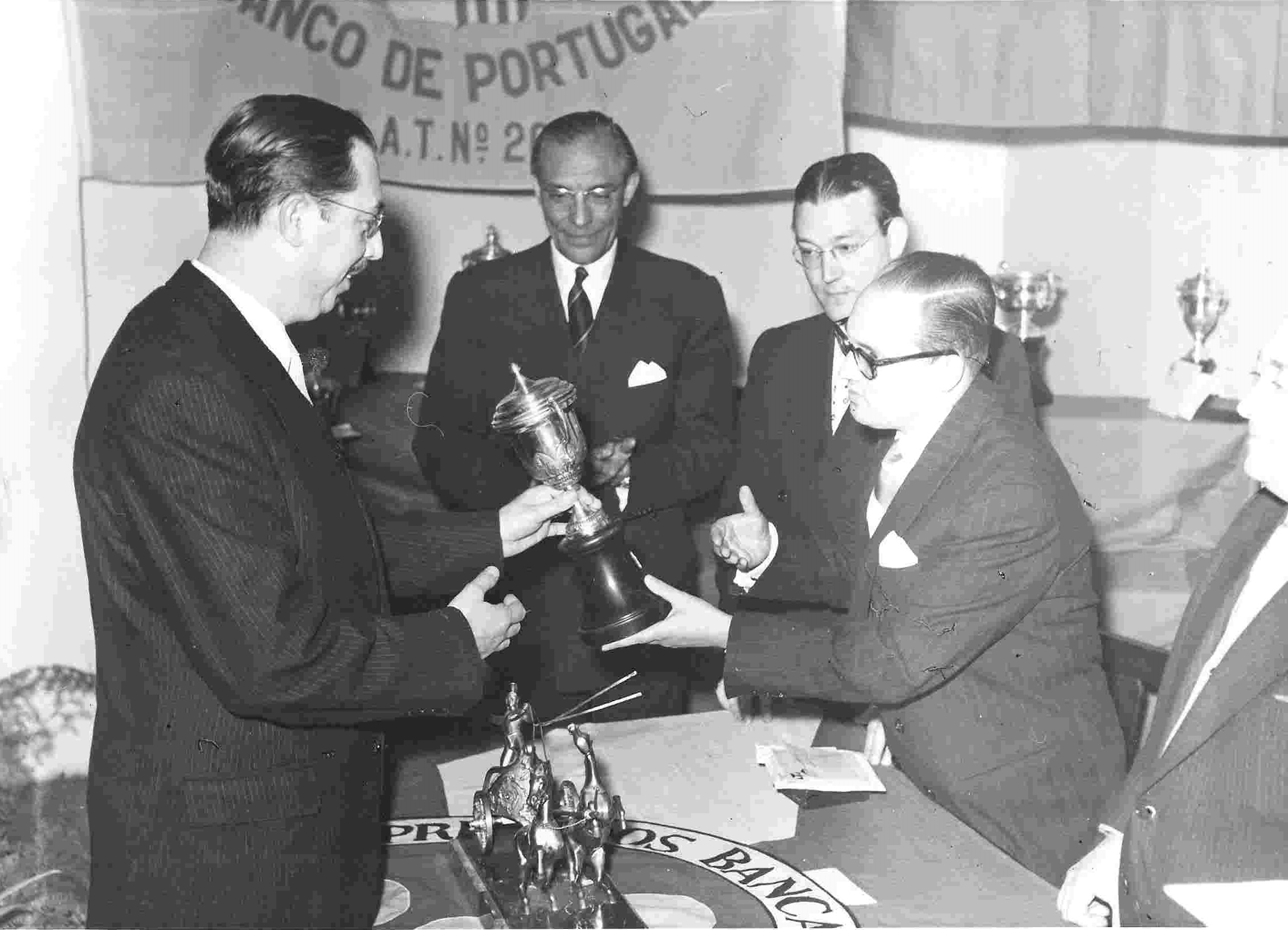 CHESS MASTER R.C.NASCIMENTO RECEIVES A 1st PRIZE IN A TOURNEY IN 1957, IN LISBON.